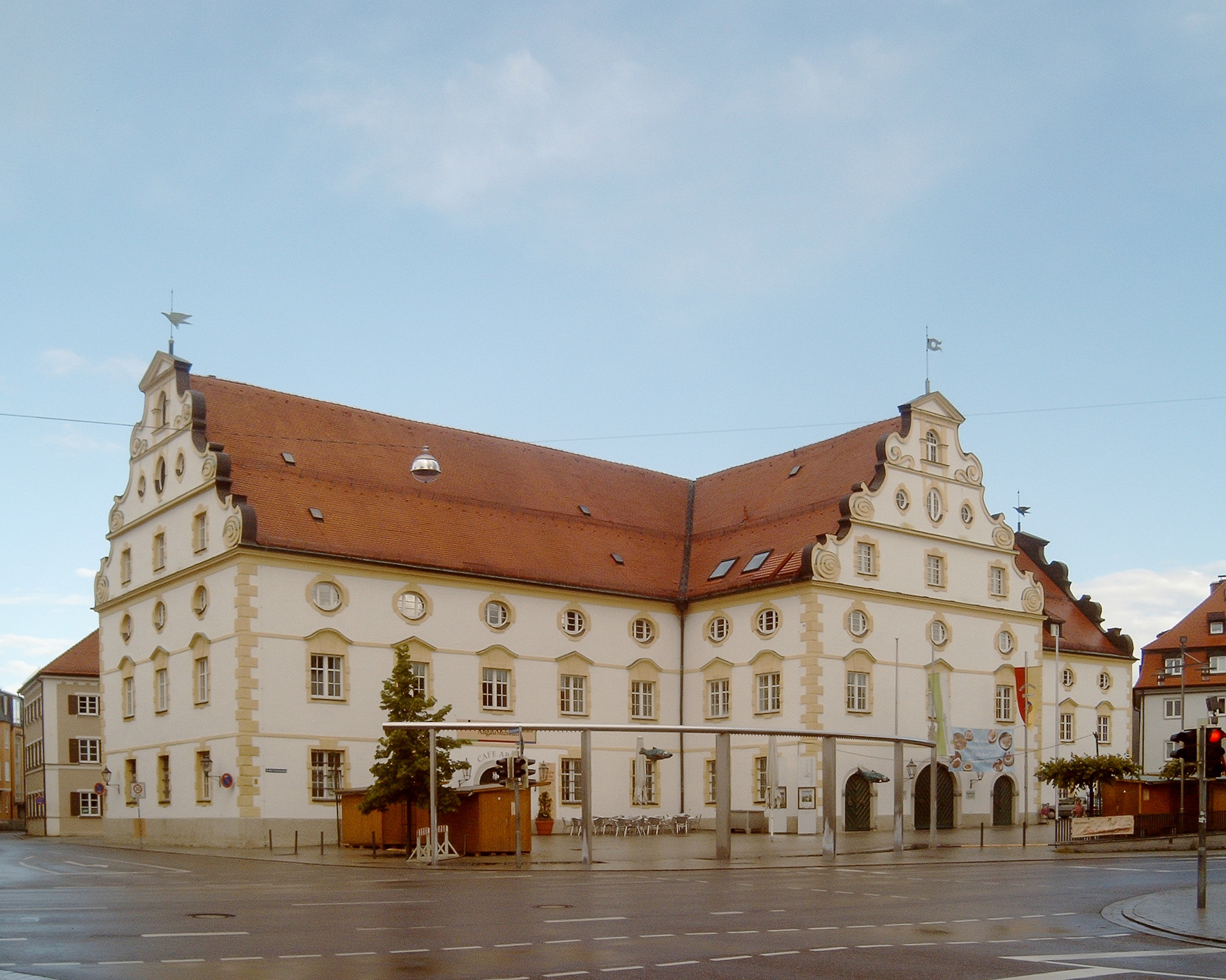 Kempten, Allgäu museum